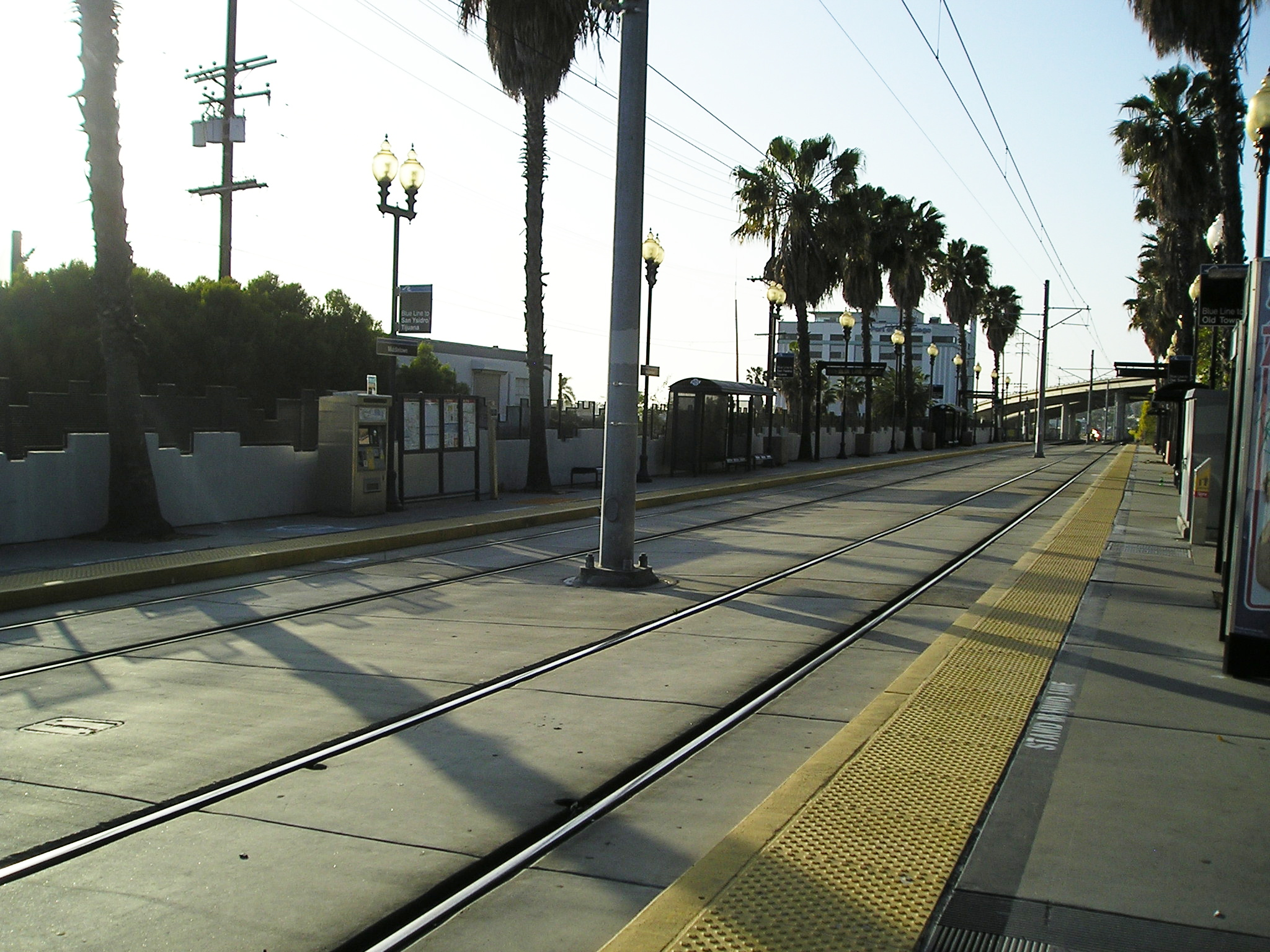 Middle Town Station, San Diego